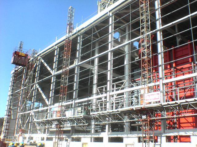 The front of Rya heat and power plant, Gothenburg, Sweden during construction.